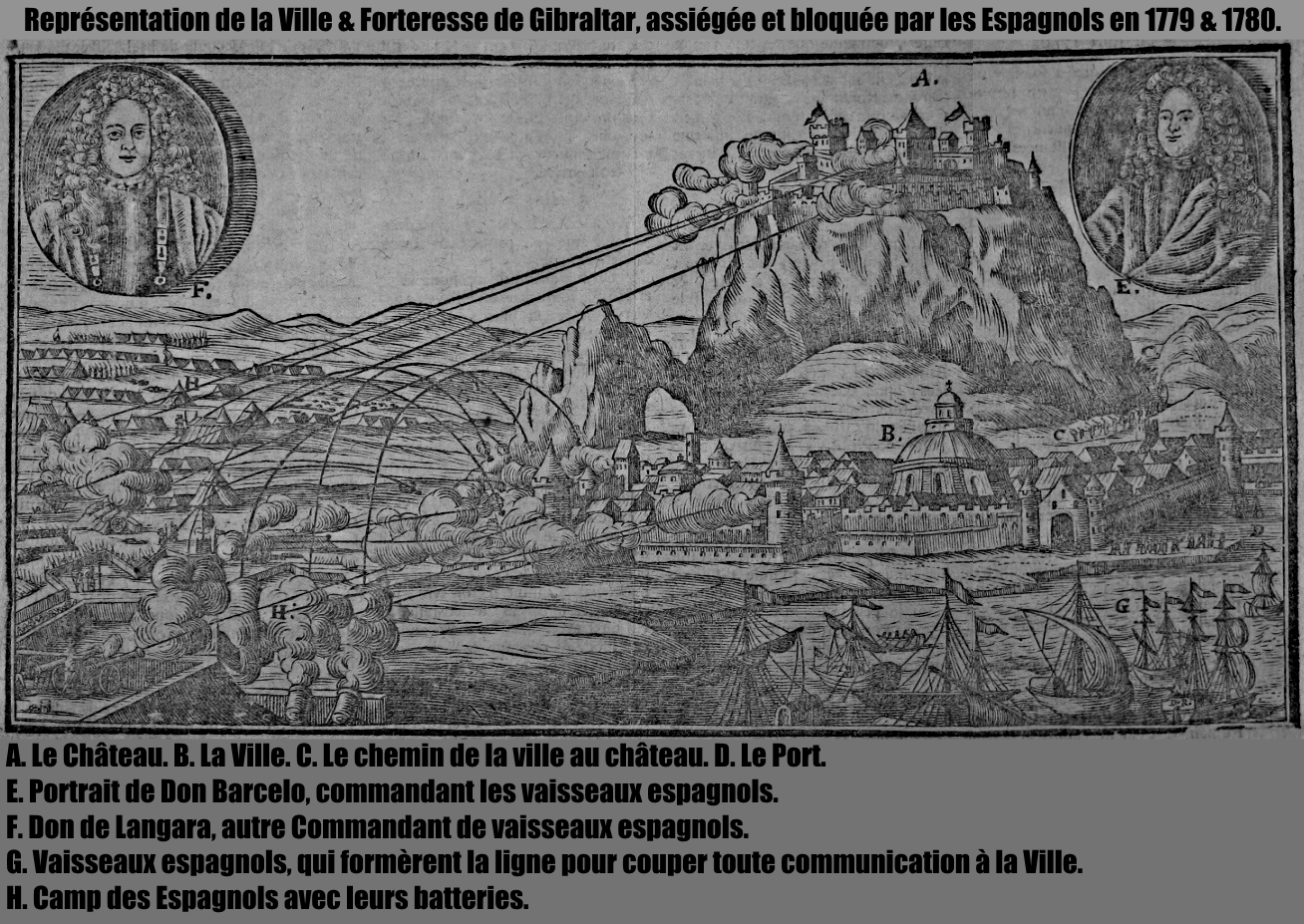 Representation of the City and Fortress of Gibraltar, bessieged & blockaded by the Spaniards in 1779 & 1780. [A.] The Castle. [B.] The City. [C.] The path from the city to the castle. [D.] The Harbour. [E.] Portrait of Don Barcelo, commanding the Spanish vessels. [F.] Don Louis* de Langara (*actually Don Juan de Langara y Huarte), other Spanish vessels Commander. [G.] Spanish vessels, which formed the line to cut all communication with the City. [H.] Camp of the Spaniards with their batteries.